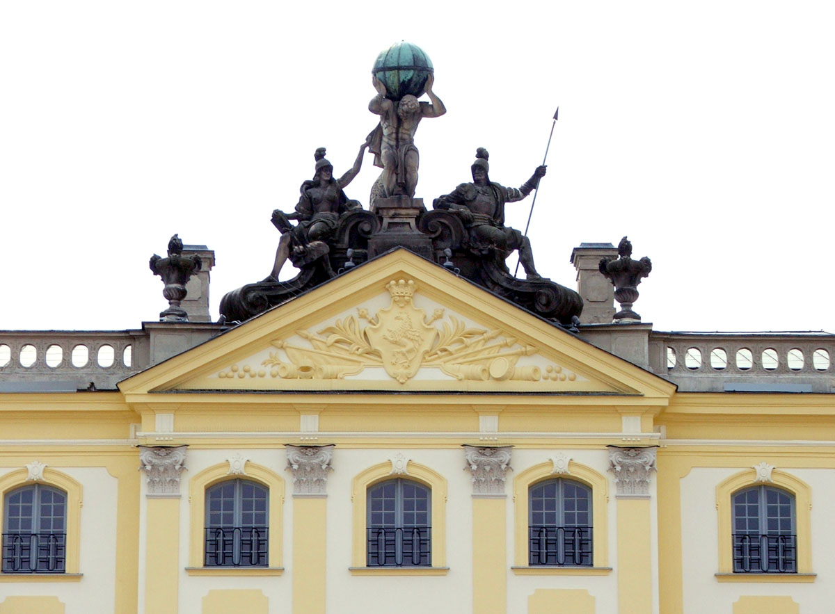 Pediment of the Branicki Palace in Białystok.